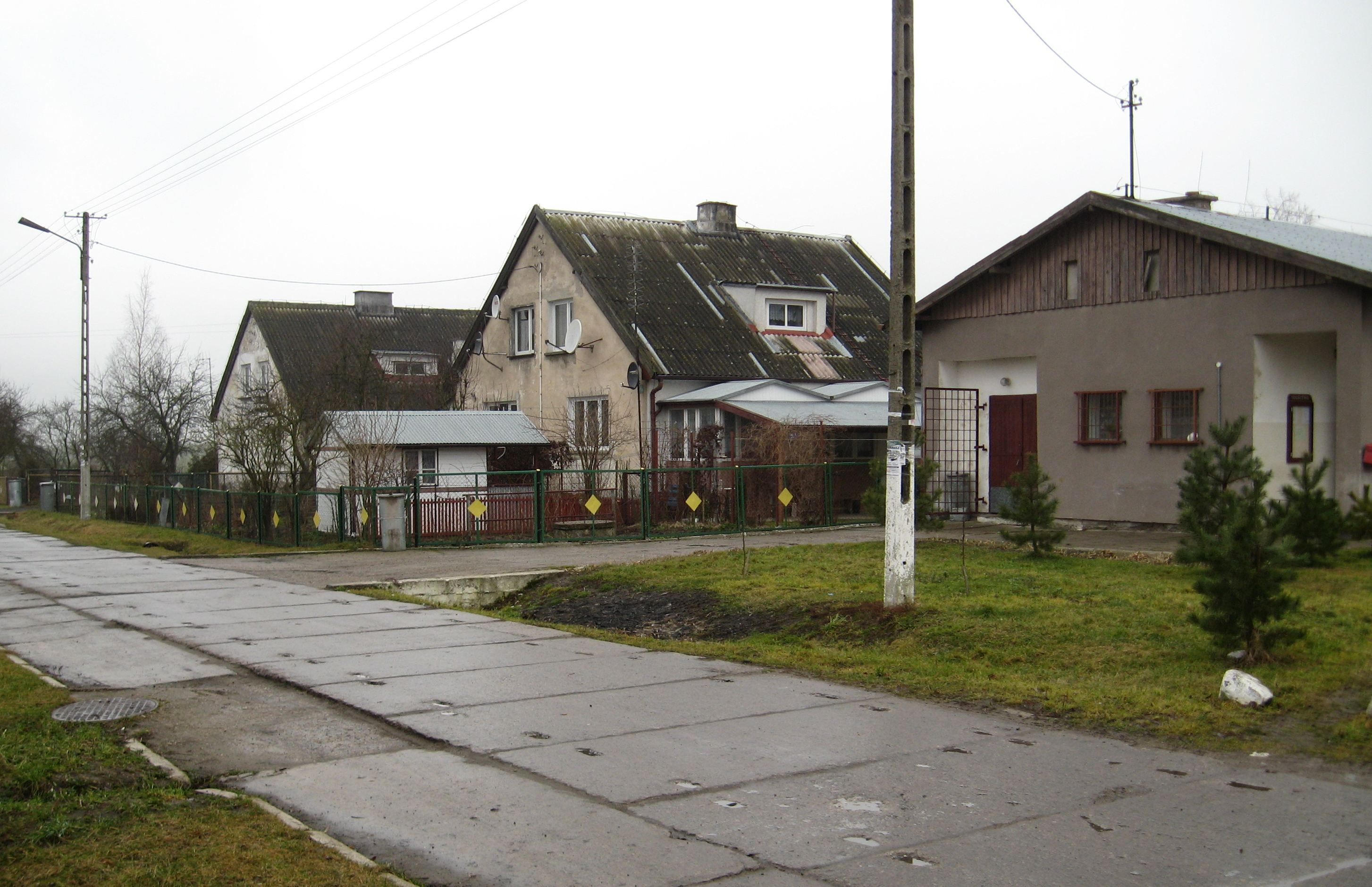 The village Podławki in Poland - OpenStreetMap (Info)